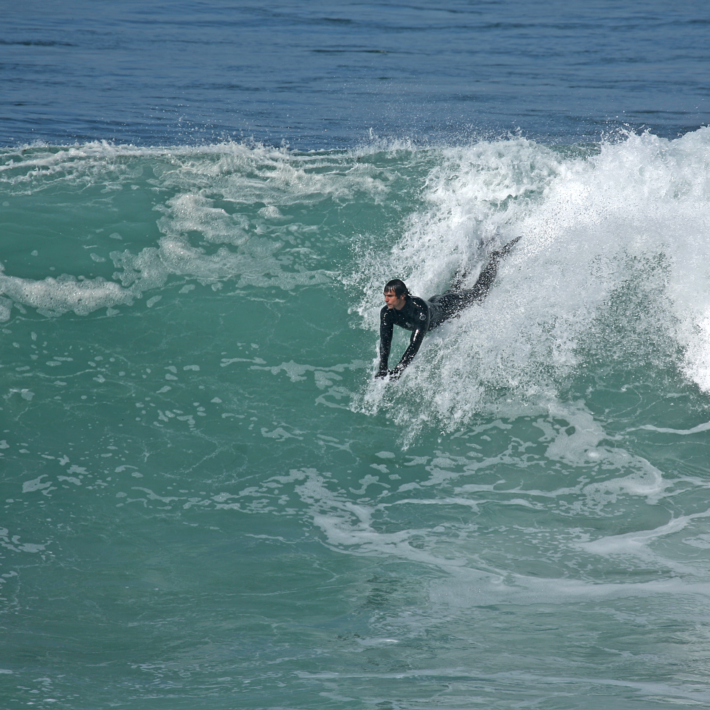 Bodysurfing in San Diego, California, January 2008